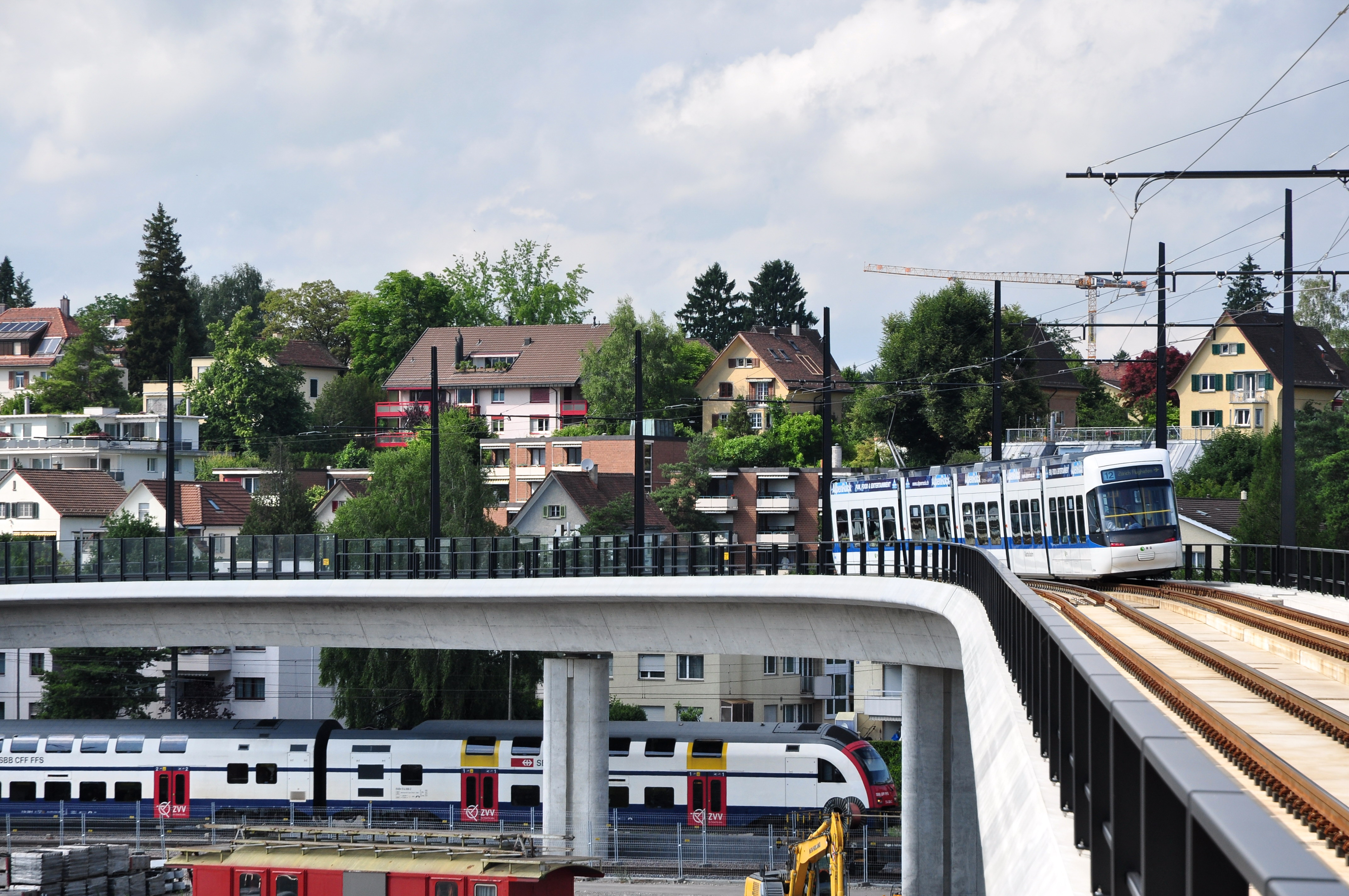 Wallisellen (Switzerland) as seen from the Glattalbahn train station Glattzentrum